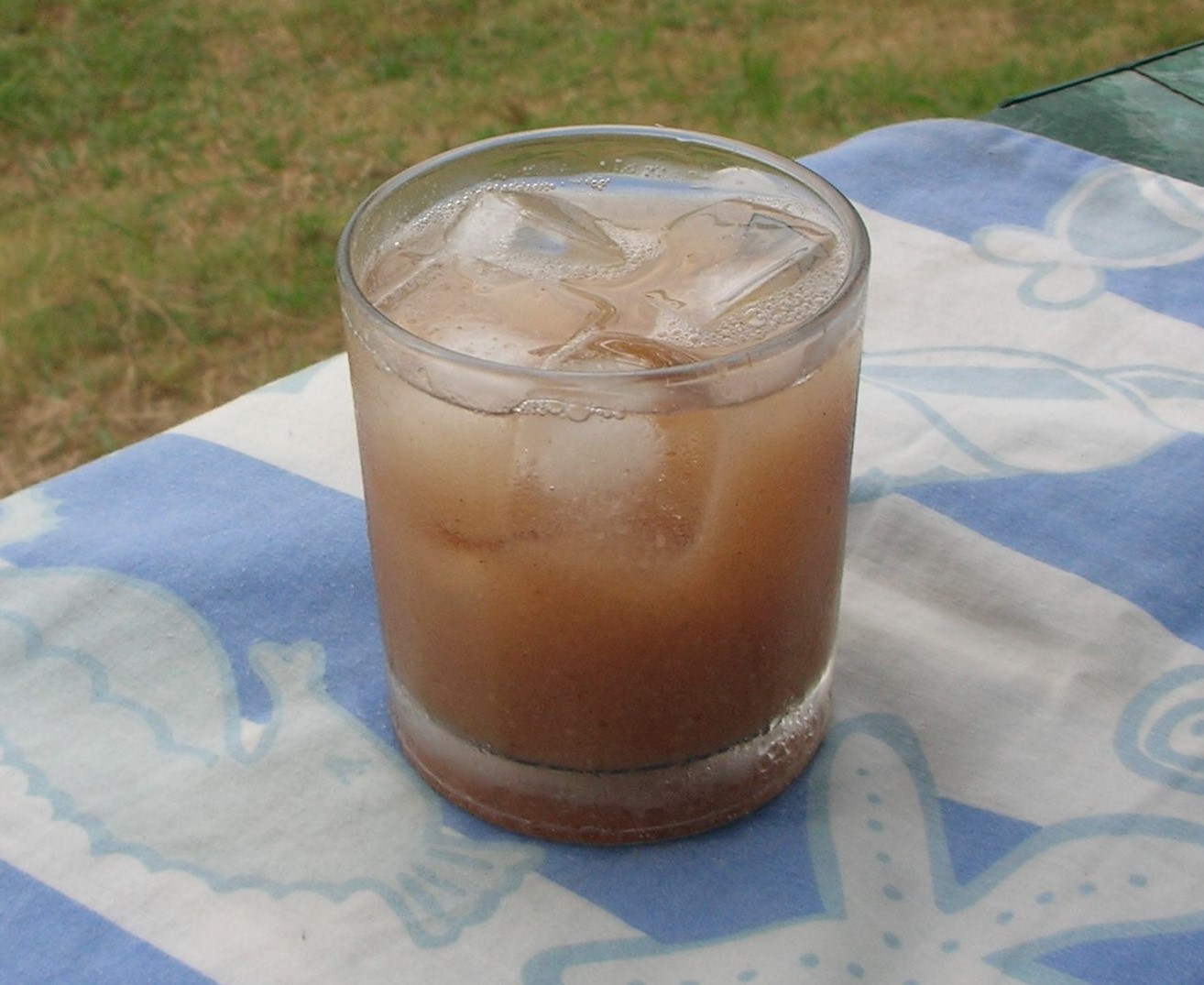 A glass of Limonia acidissima juice